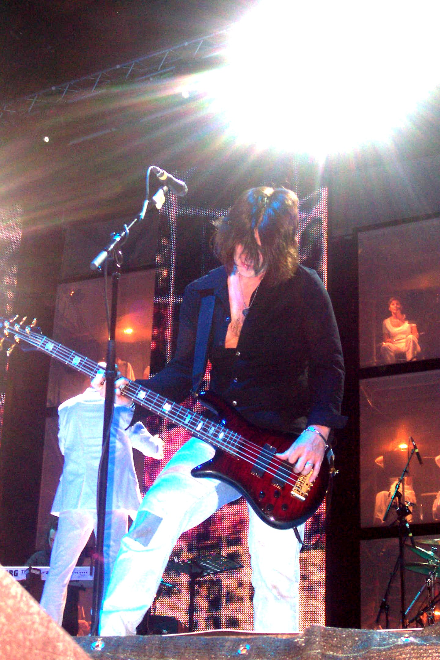 Paul_Di_Leo_at Olympiahalle Munic